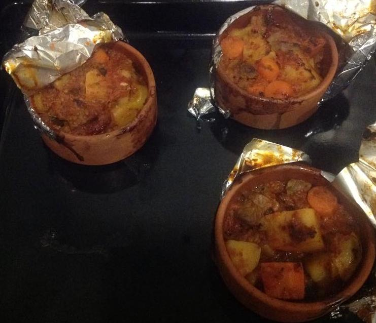 Turkish lamb güveç with potatos, carrots and other vegetables